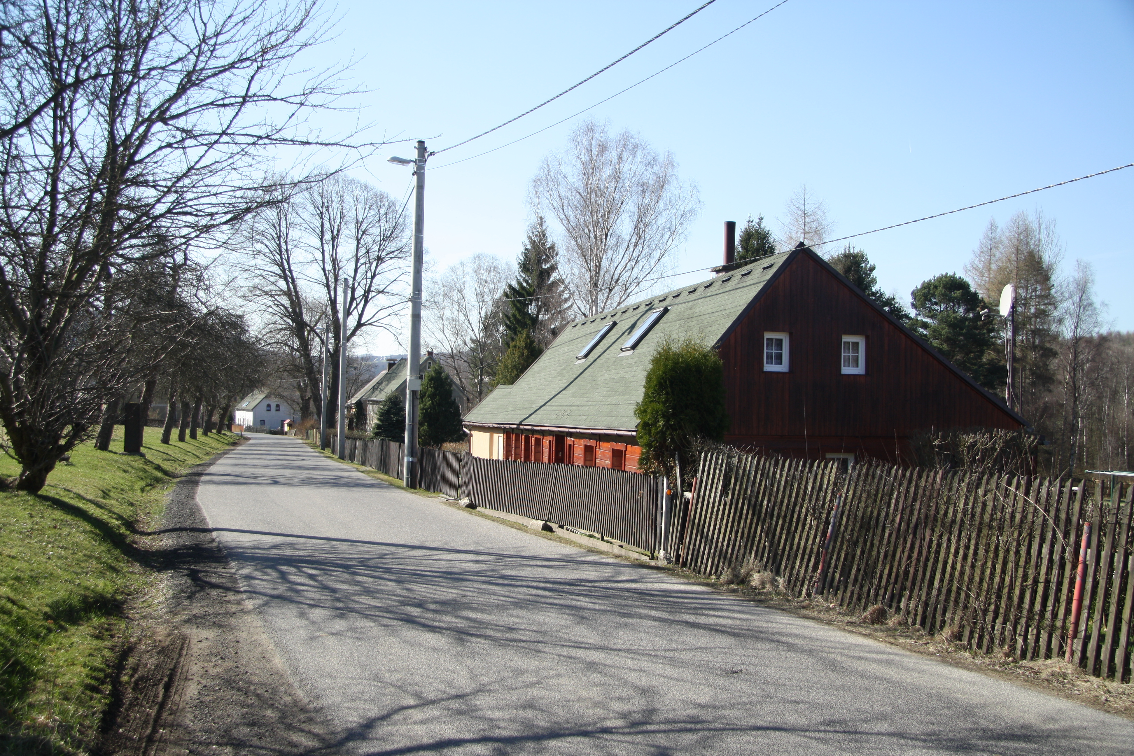 Way of Karlín, Dolní Poustevna, Děčín District.